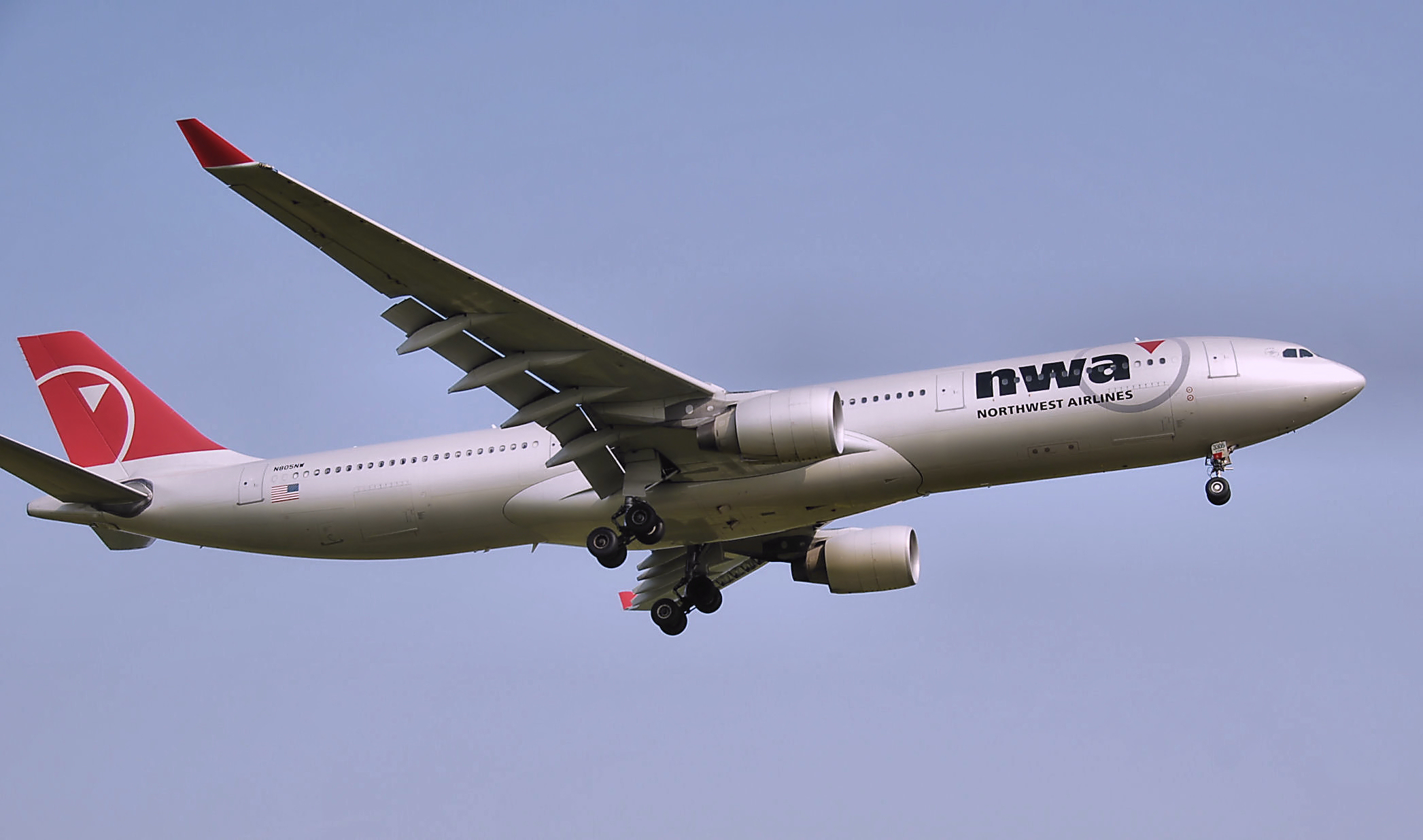 Northwest Airlines Airbus A330-300 (N805NW) landing at London Gatwick Airport, England.